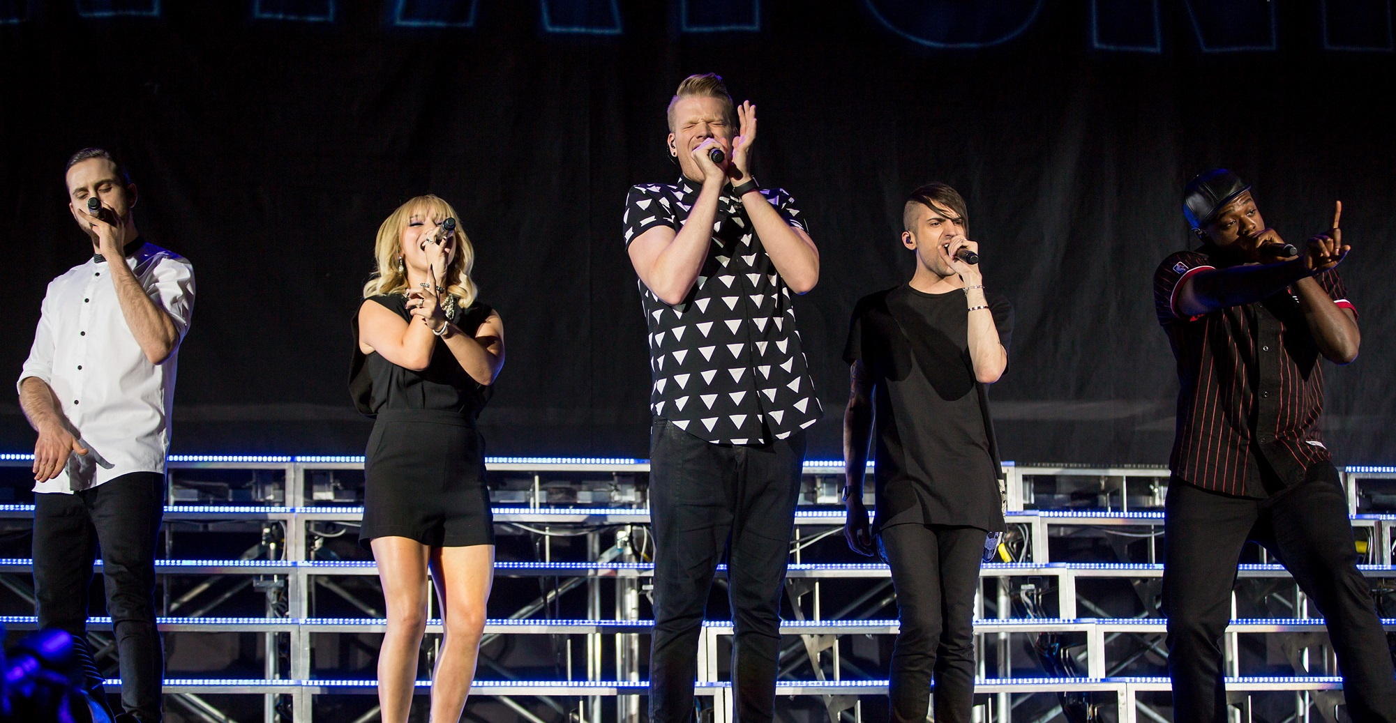 A cappella group Pentatonix performing at the Austin360 Amphitheater in Austin, Texas on August 29, 2015. The group's members at the time were, from left to right: Avi Kaplan, Kirstin Maldonado, Scott Hoying, Mitch Grassi, and Kevin Olusola.